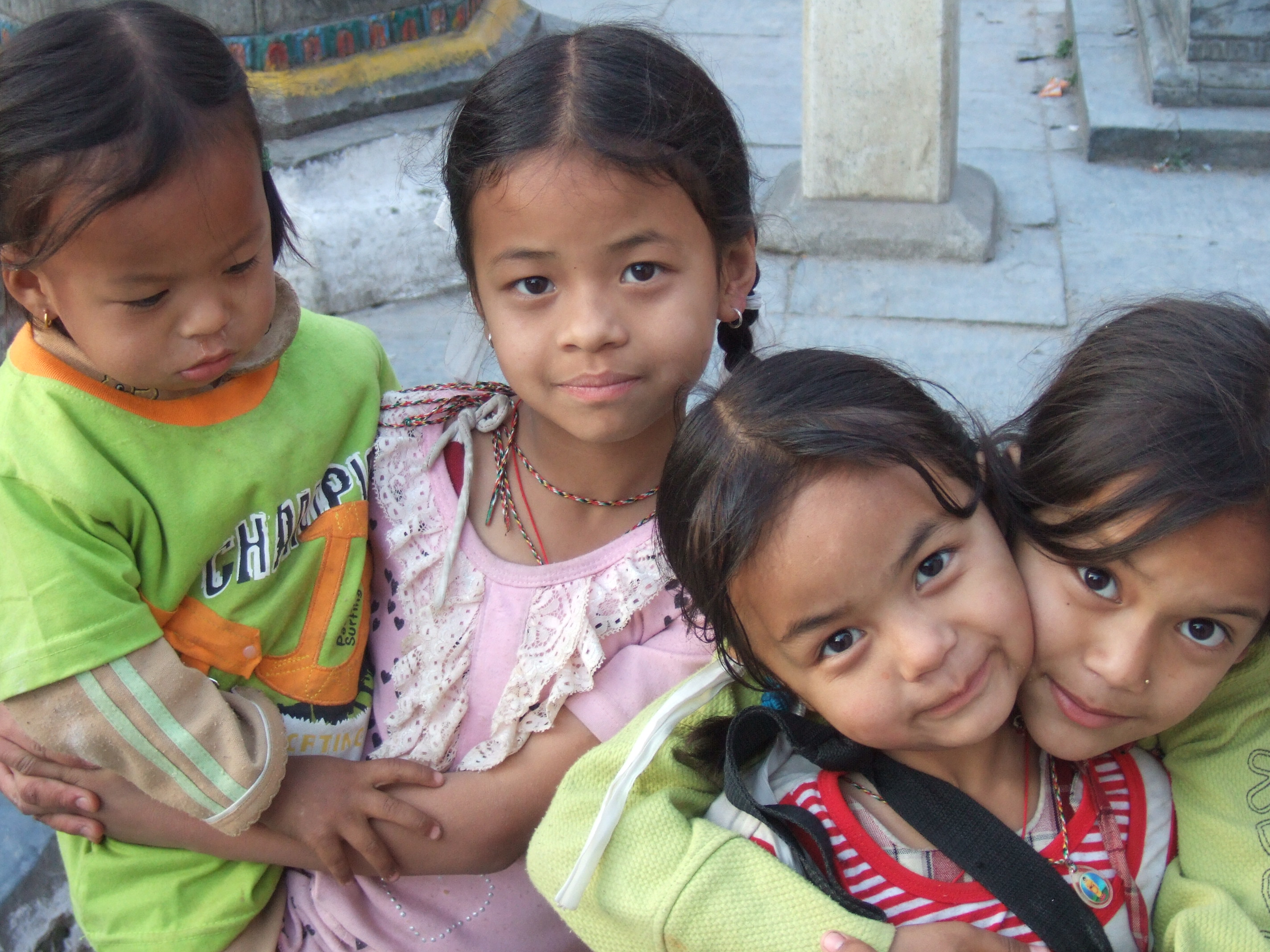 Nepalese children in Kathmandu (March 2012)